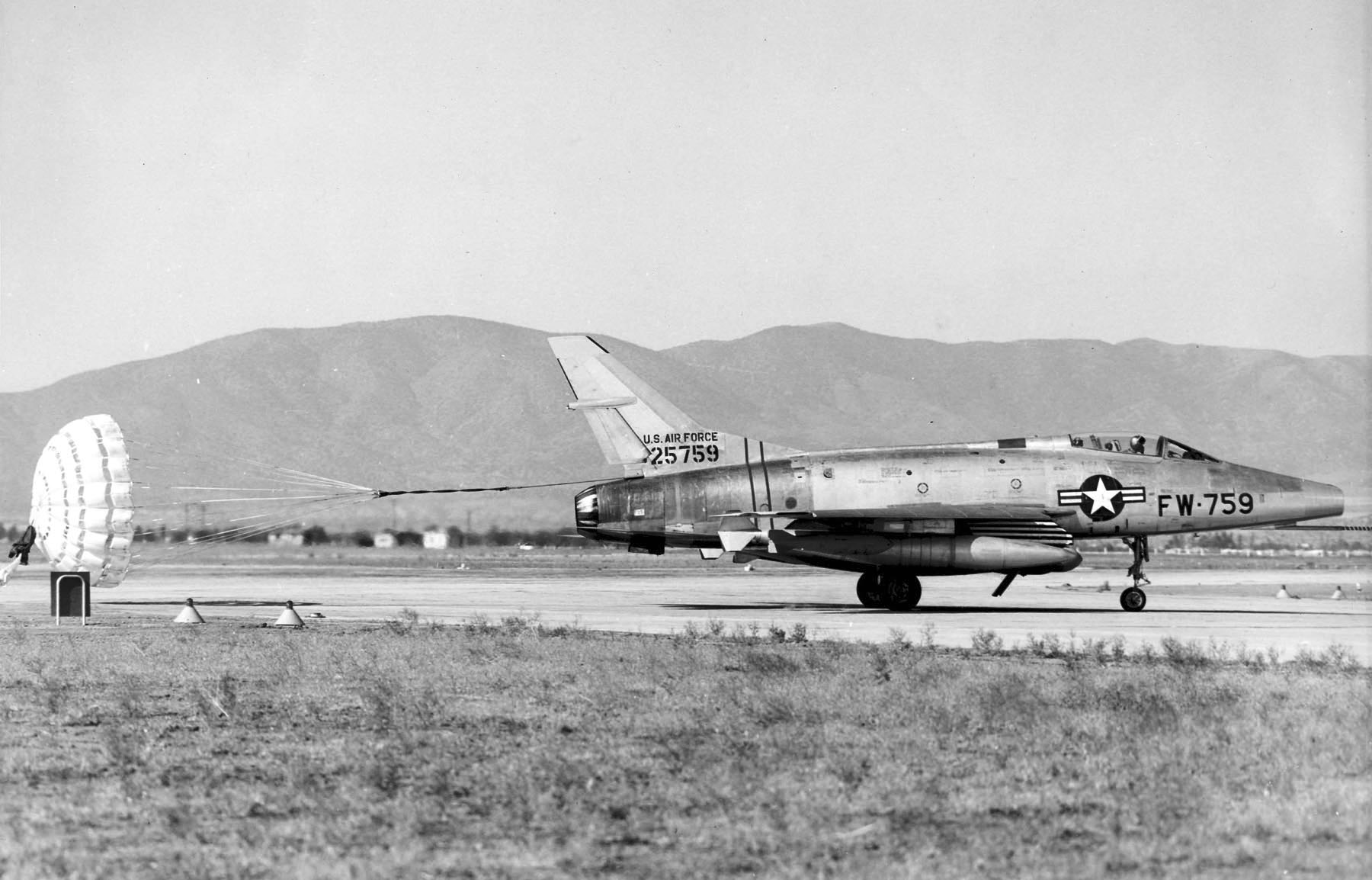 North American F-100A (SN 52-5759) landing with drag chute